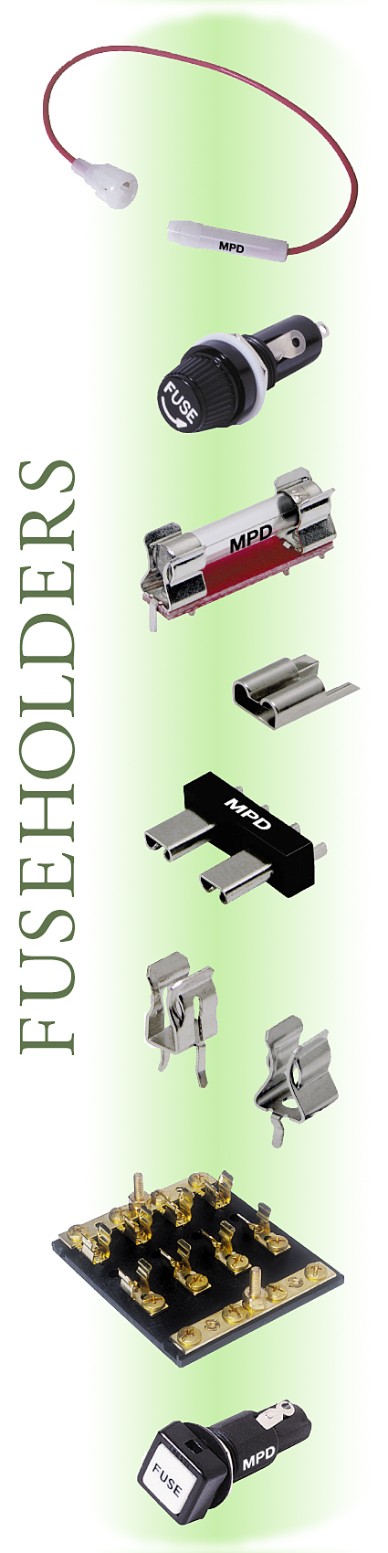 Picture Fuse Holders With different Shapes